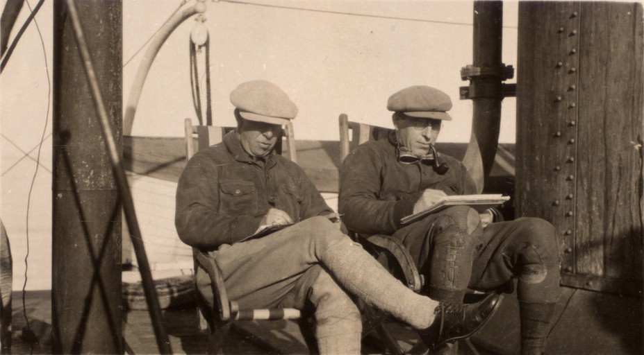 Photograph of Alexander Young Jackson and Frederick Grant Banting on the S. S. Beothic, 1927